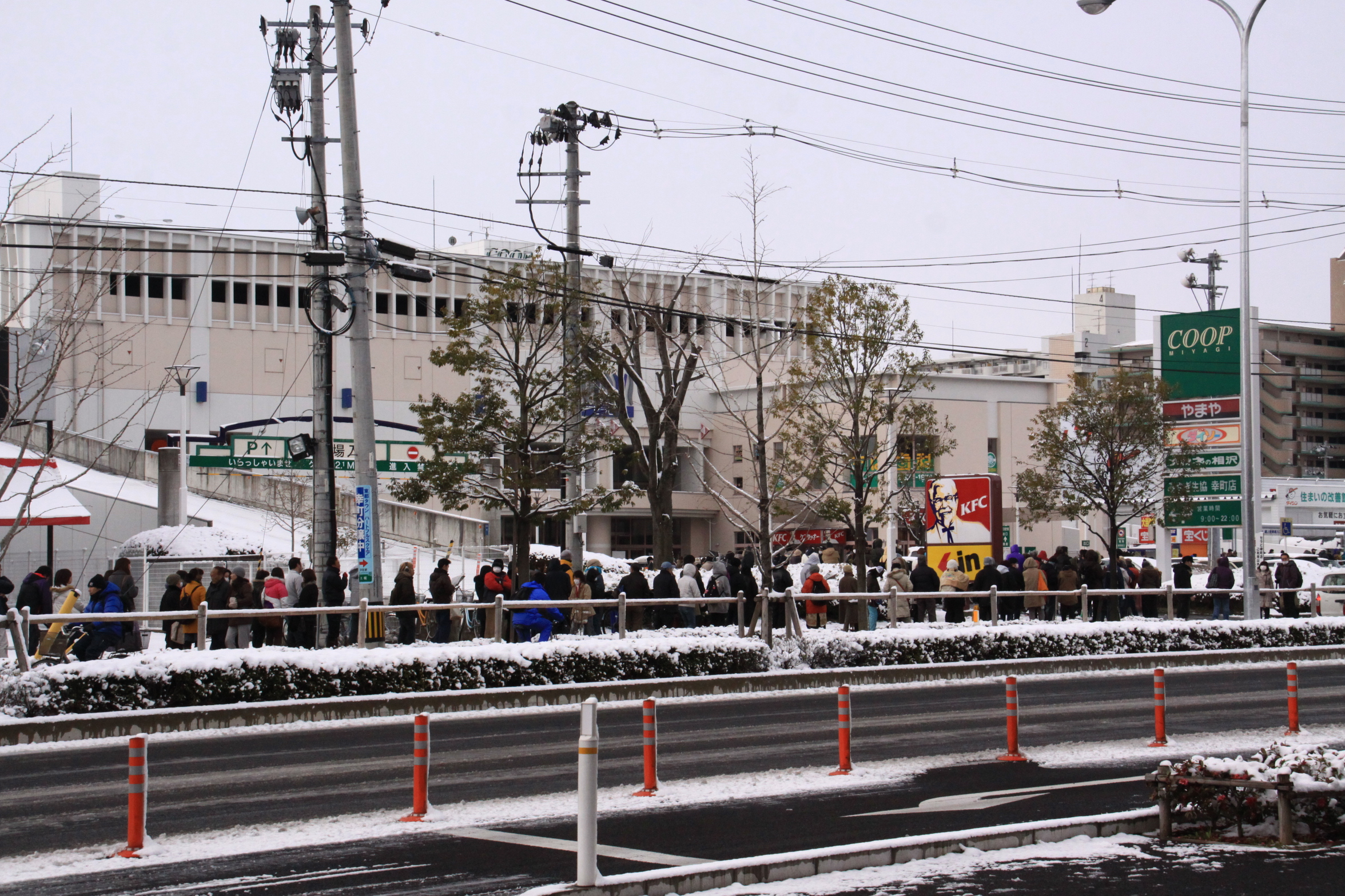 They queued to the shop for goods and foods.